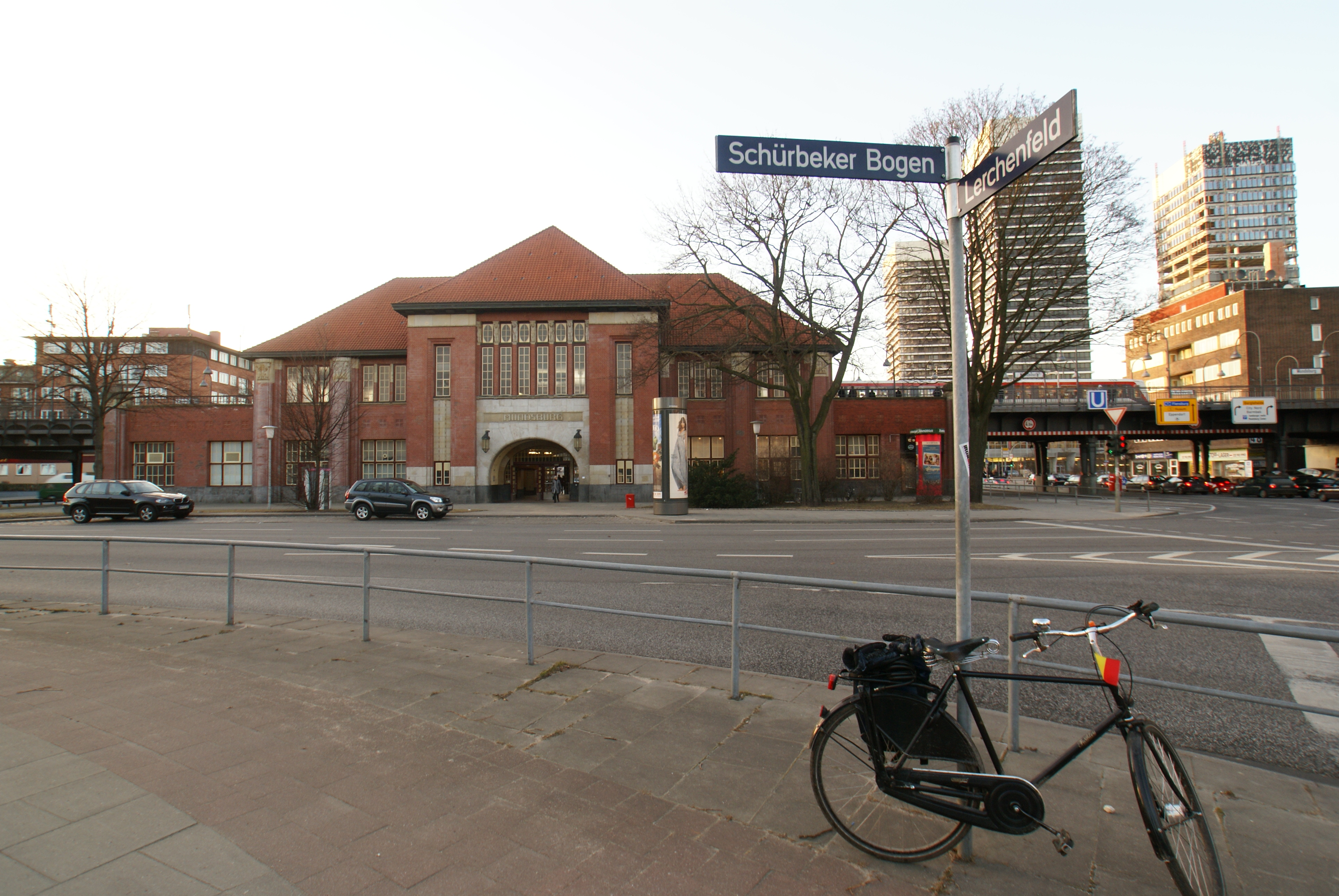 Hamburg (Uhlenhorst), Germany: The Schürbeker Bogen and the underground station Mundsburg